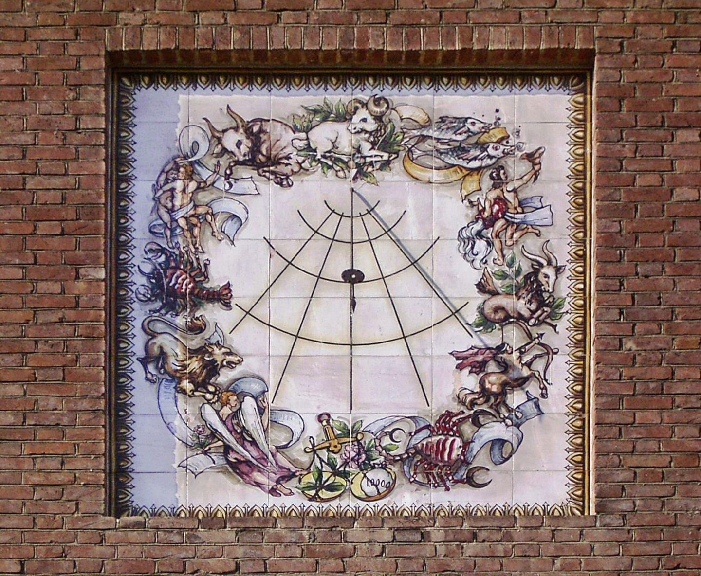 A sundial in Piazza Collegio Ghislieri, Pavia, Italy